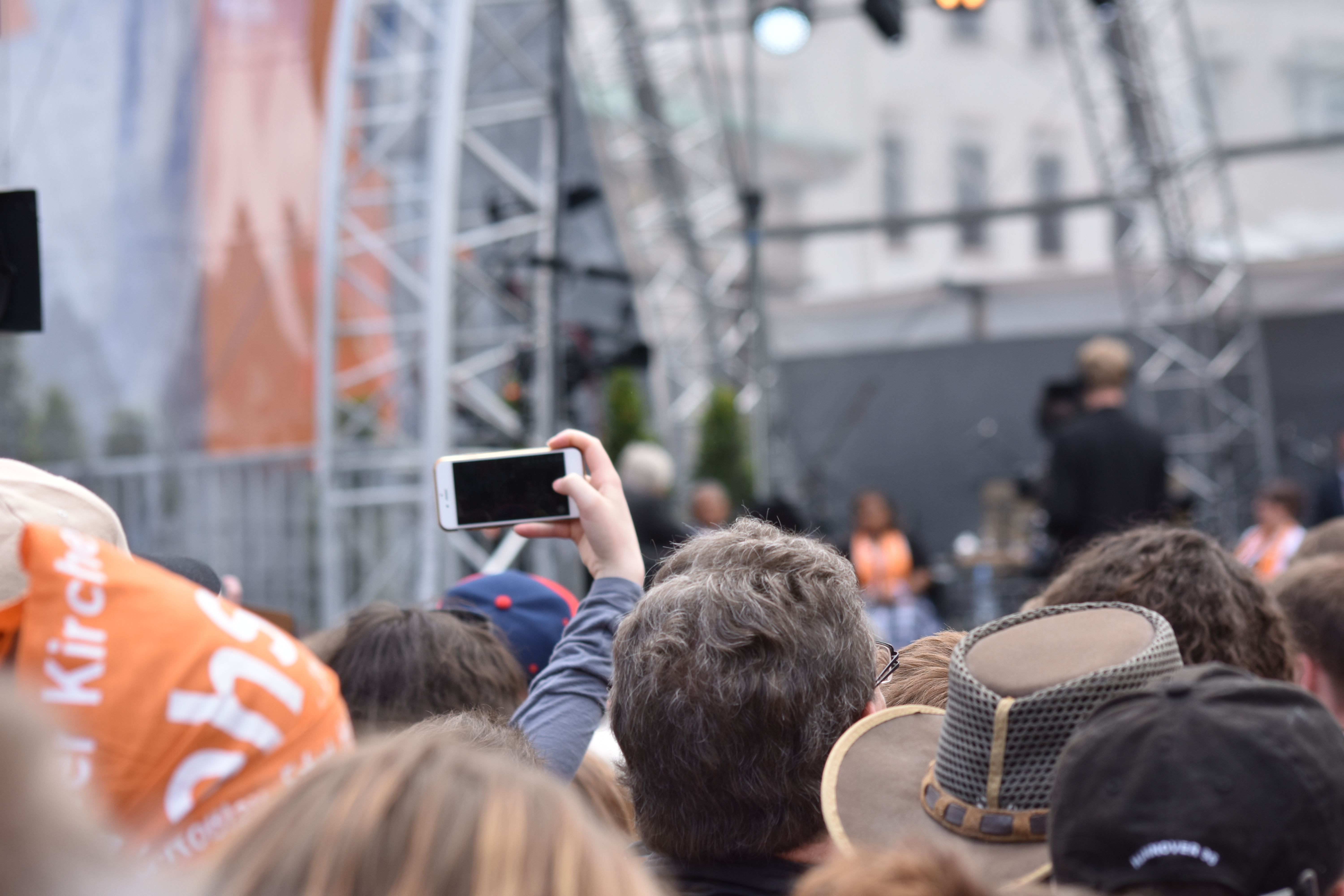 People with mobile phone Kirchentag 2017 Berlin by Nicolas Völcker